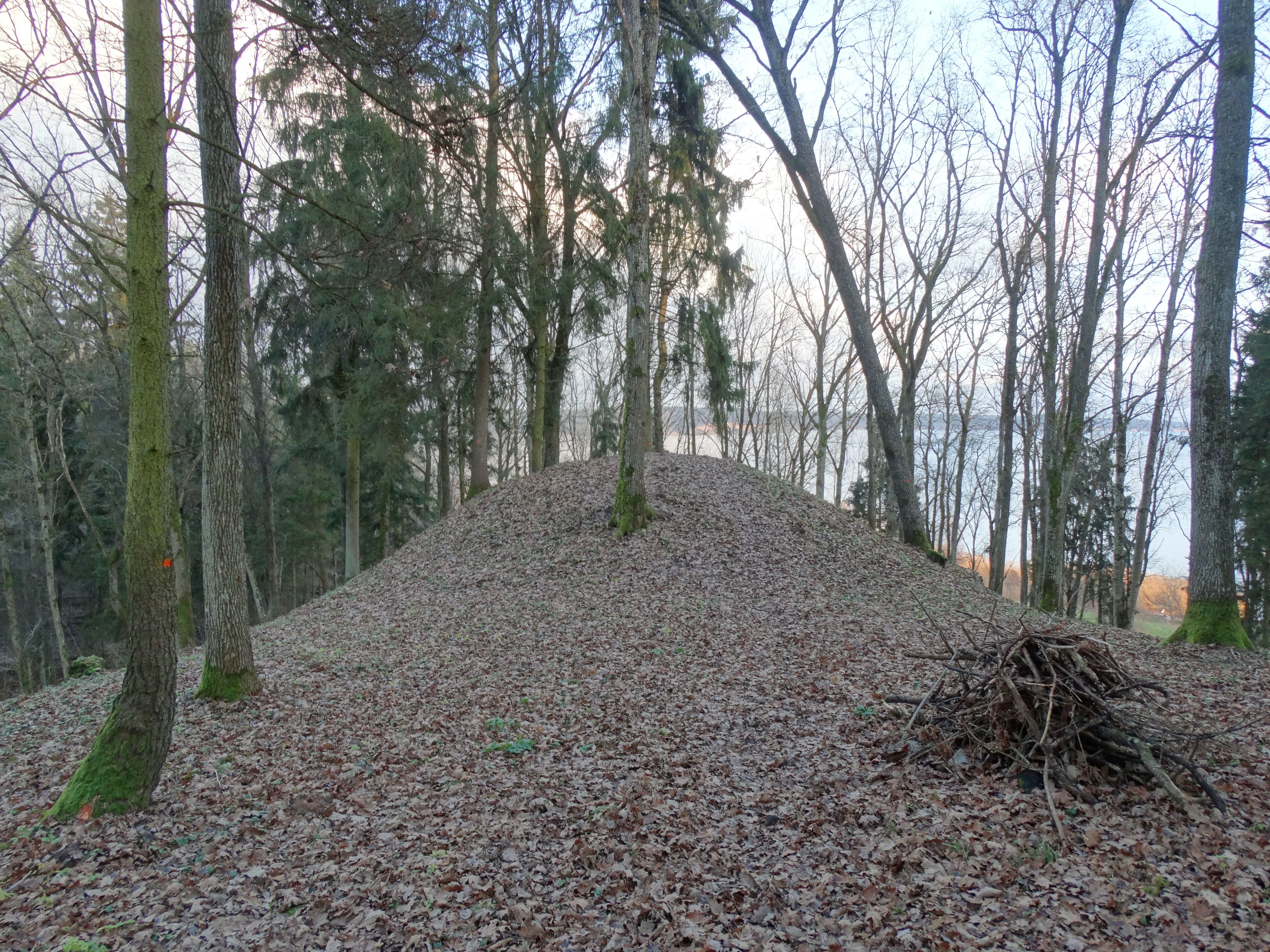 Samylai, 2nd Hillfort, Kaunas District, Lithuania